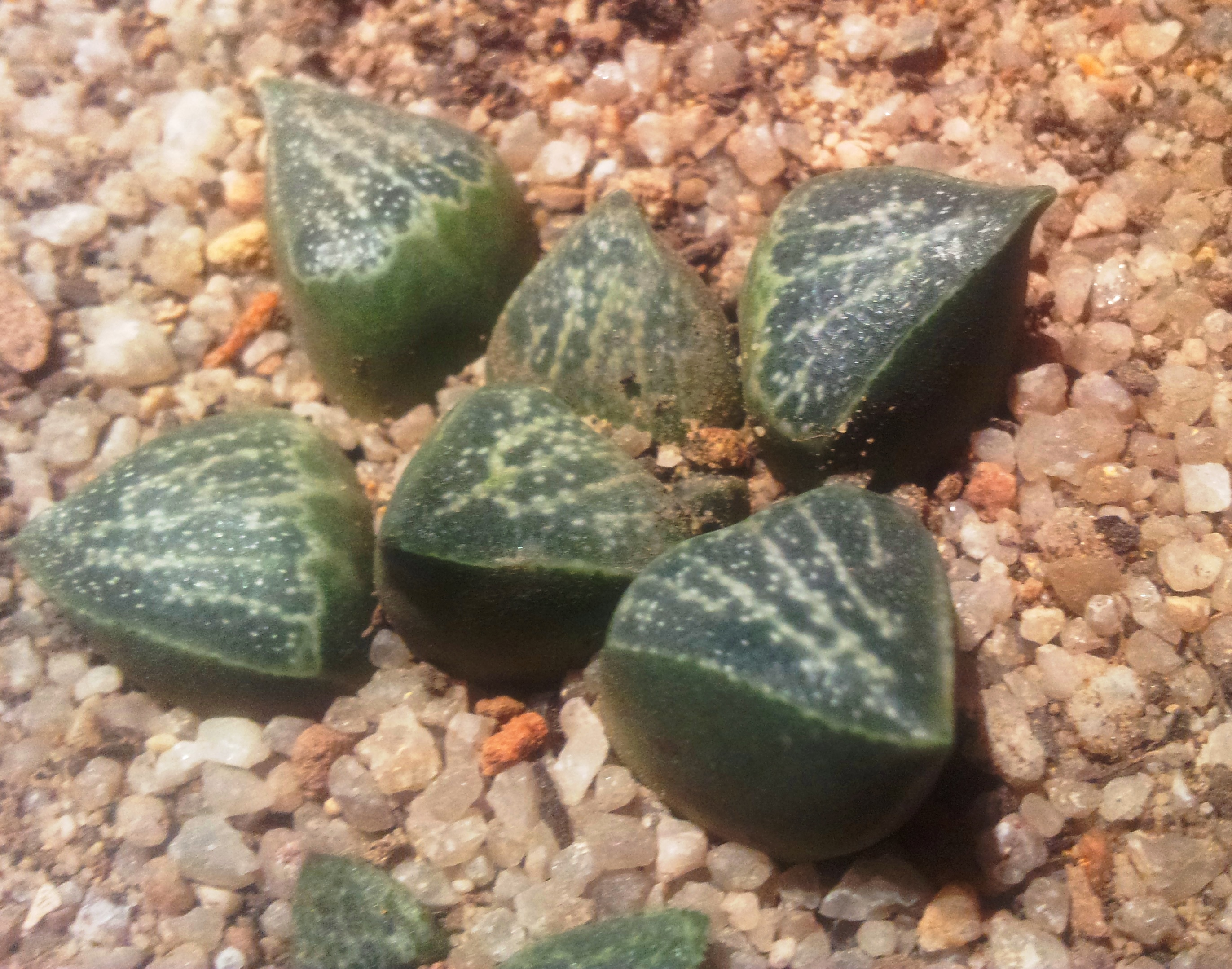 Haworthia pygmaea var argenteo maculosa - Bayer Mossgas